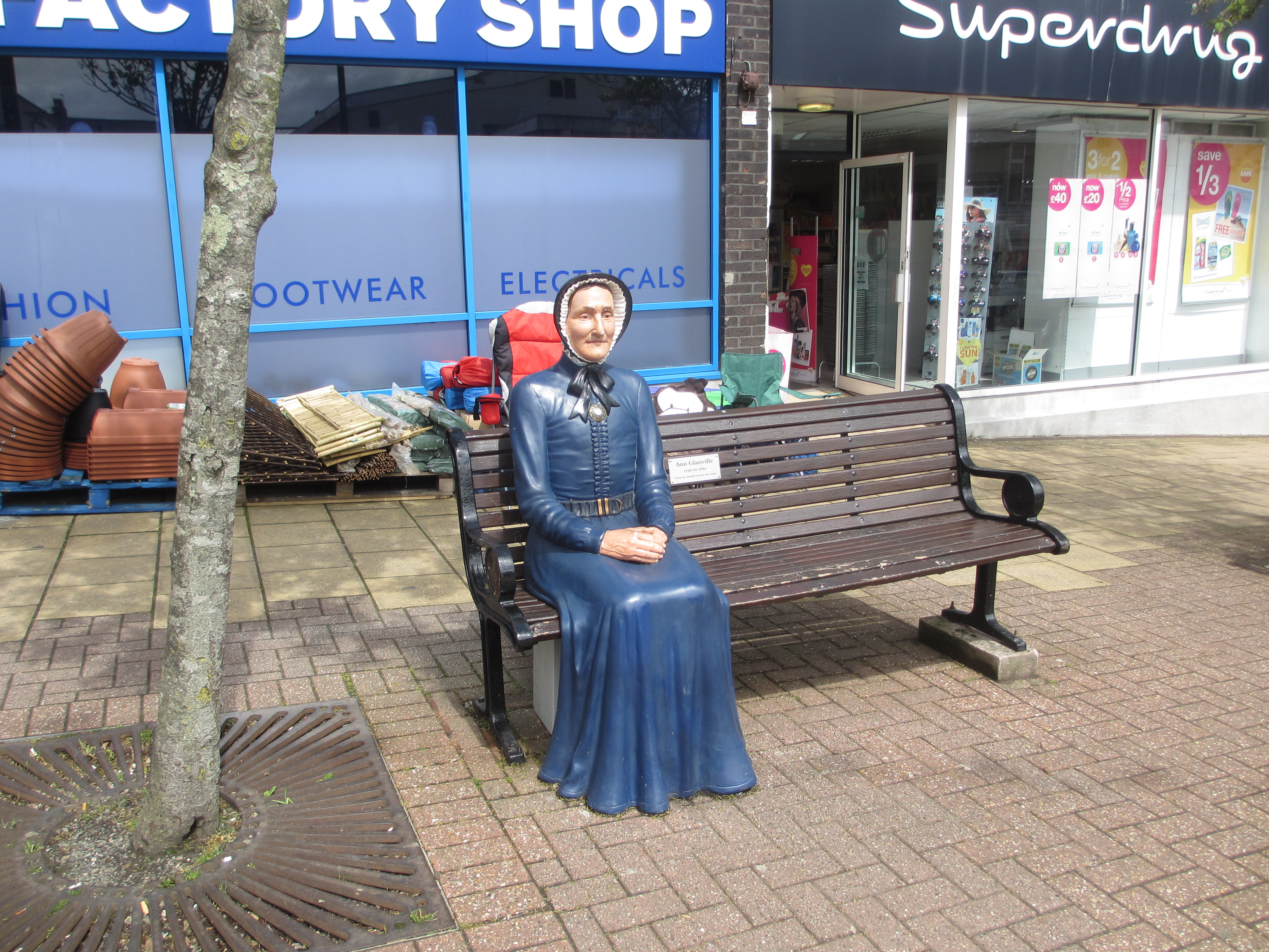 Ann Glanville (1796-1880), Fore Street, Saltash